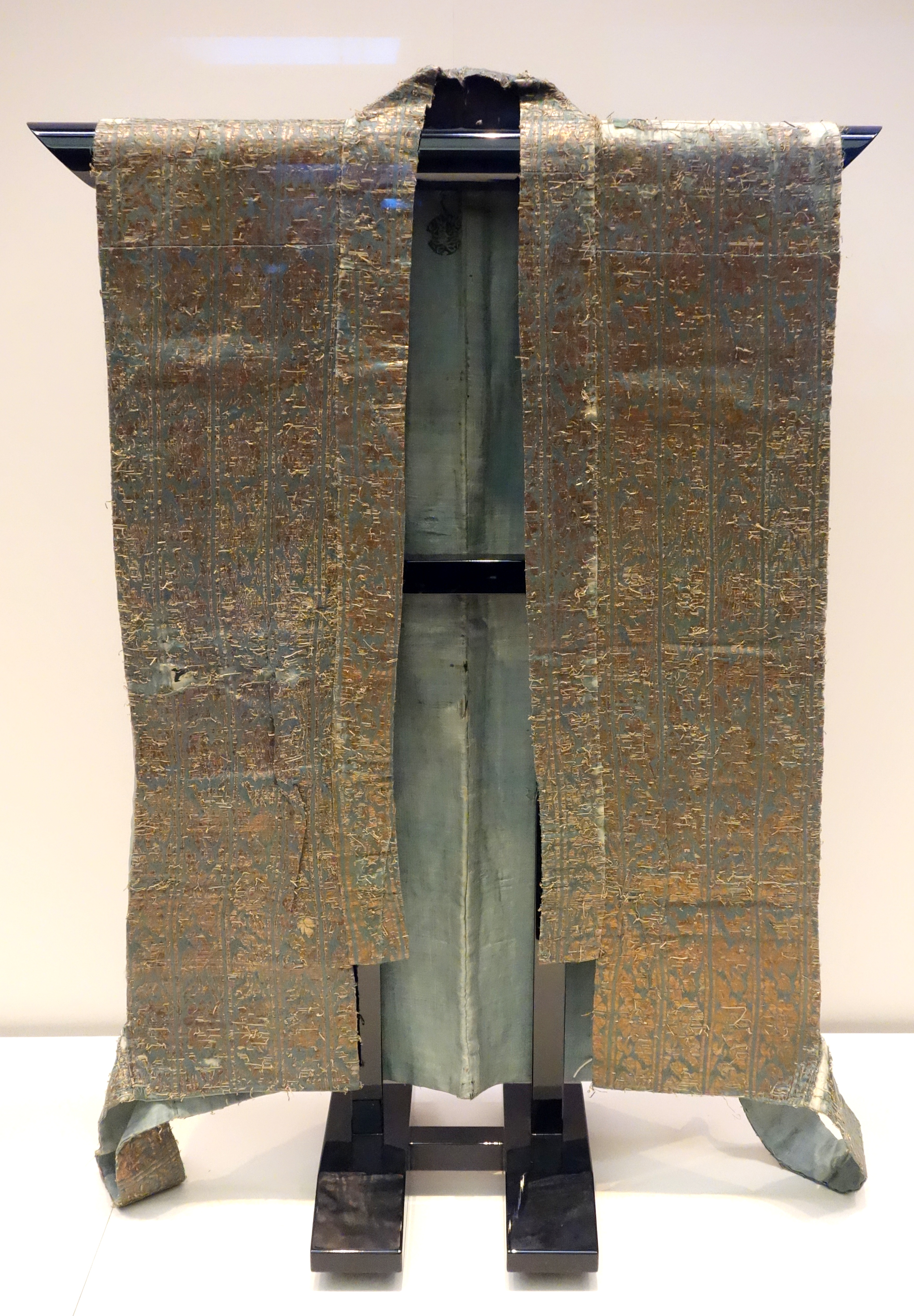 Exhibit in the Tokyo National Museum, Tokyo, Japan. This artwork is old enough so that it is in the public domain.